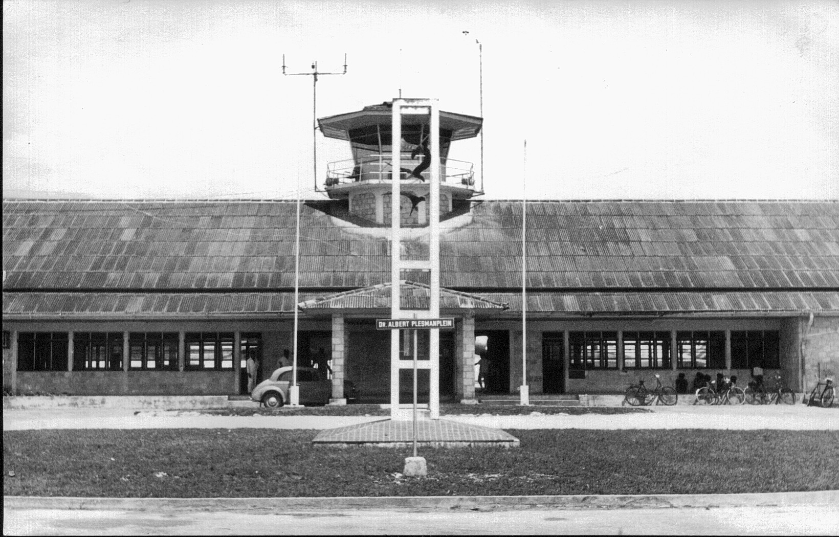 Netherlands New Guinea (Dutch New Guinea): passenger terminal and air traffic control tower Mokmer Airport (Biak)